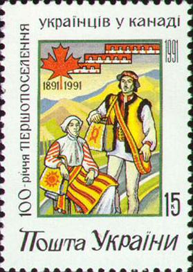 Stamp of Ukraine 1992Centenary of Ukrainian Settlement in Canada, 1891-1991